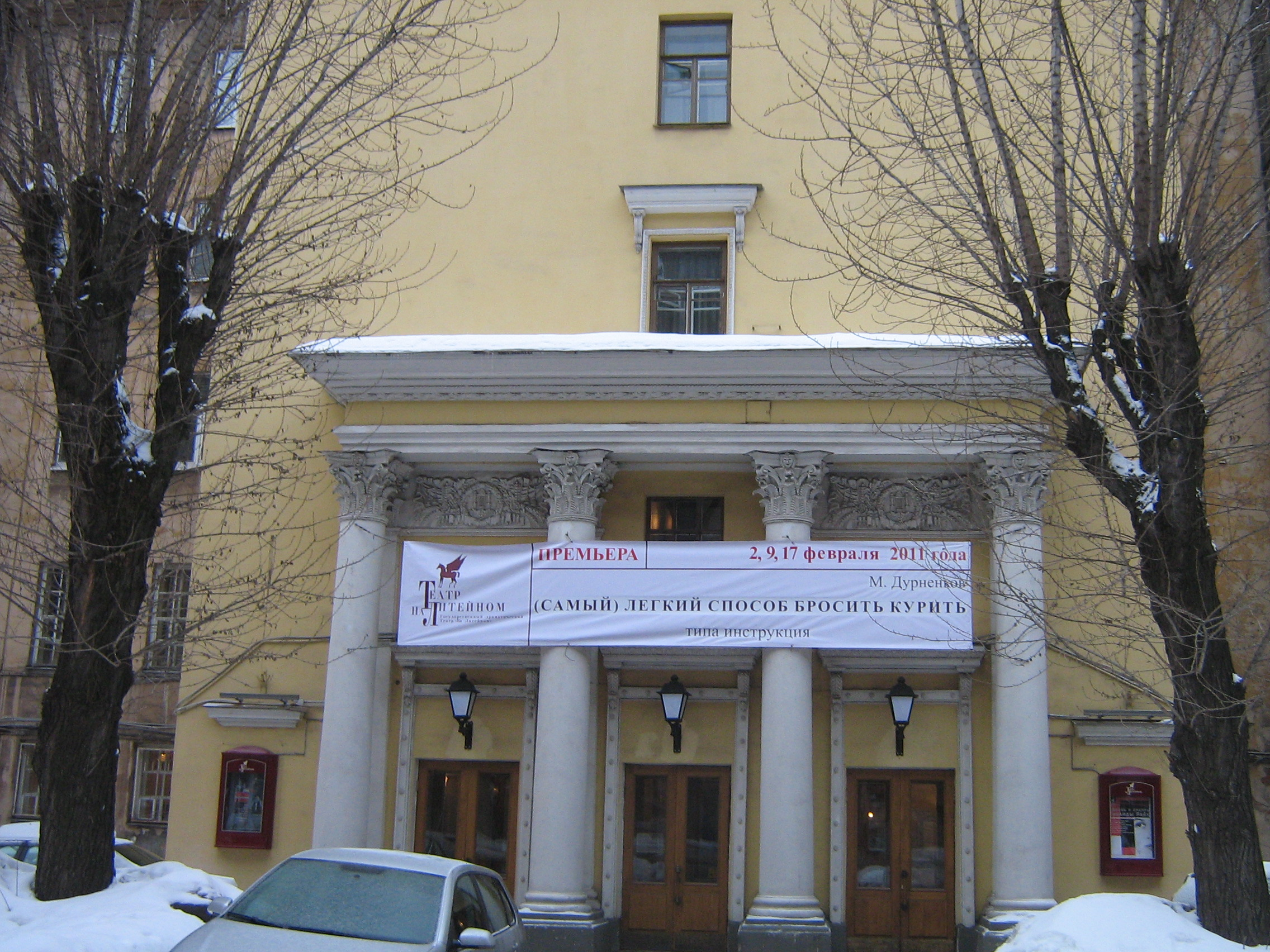 Saint Petersburg (Russia), Liteyny Avenue, 51